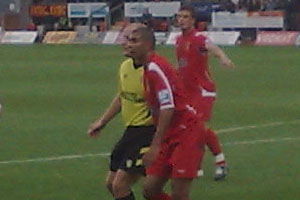 Picture taken by myself of Rikki Bains after the FA Cup fixture between Tamworth & Burton Albion on October 28, 2007.